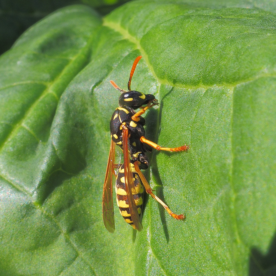 European paper wasp (Polistes dominula) in The Netherlands